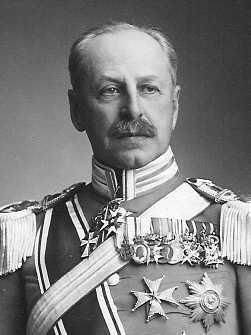 Oscar Claes Fleming Holtermann (1859-1932), Lord Chamberlain in Waiting to H.M. King Oscar II of Sweden.